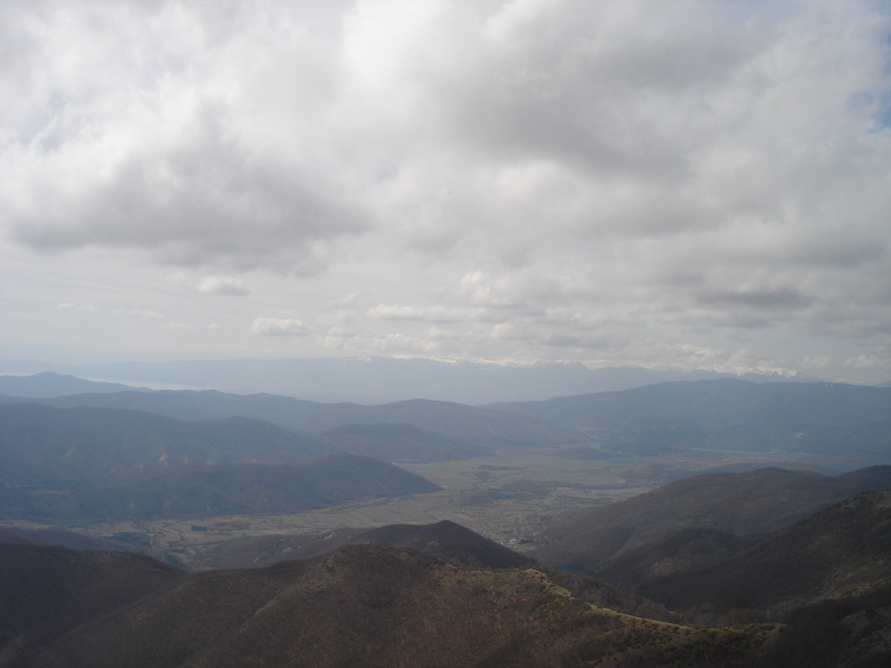 Debarca valley seen from Ilinska Mountain, Macedonia